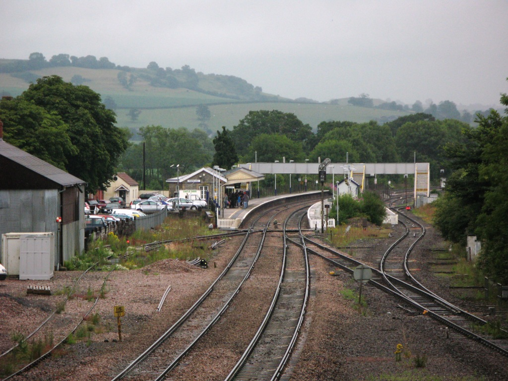 Castle Cary railway station, Somerset, England. Seen looking eastwards towards London, the line from Weymouth is in the right foreground, that to Penzance in the centre foreground.